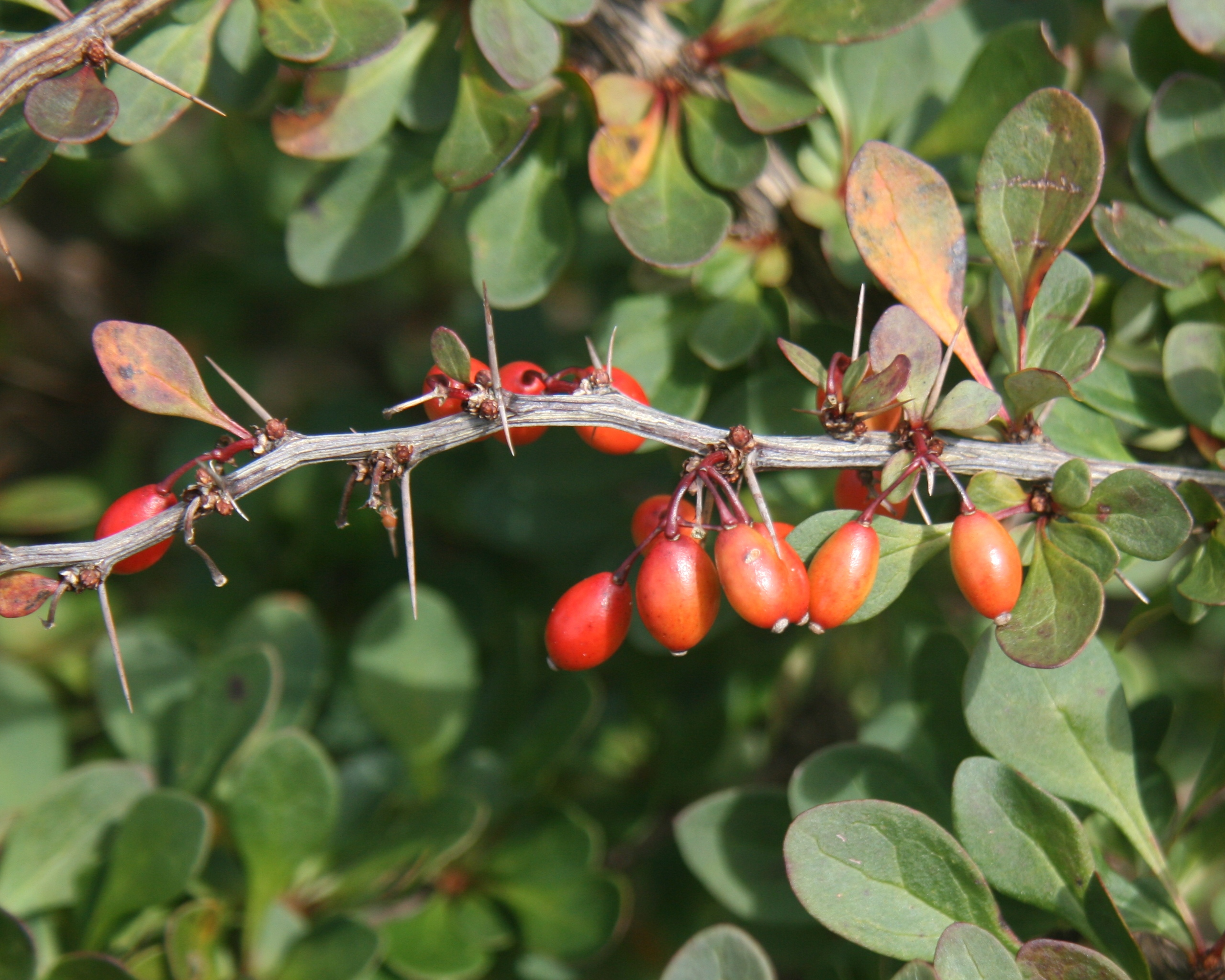 Fruits of Berberis thunbergii, in Mount Ibune of Suzuka Mountains, Japan.